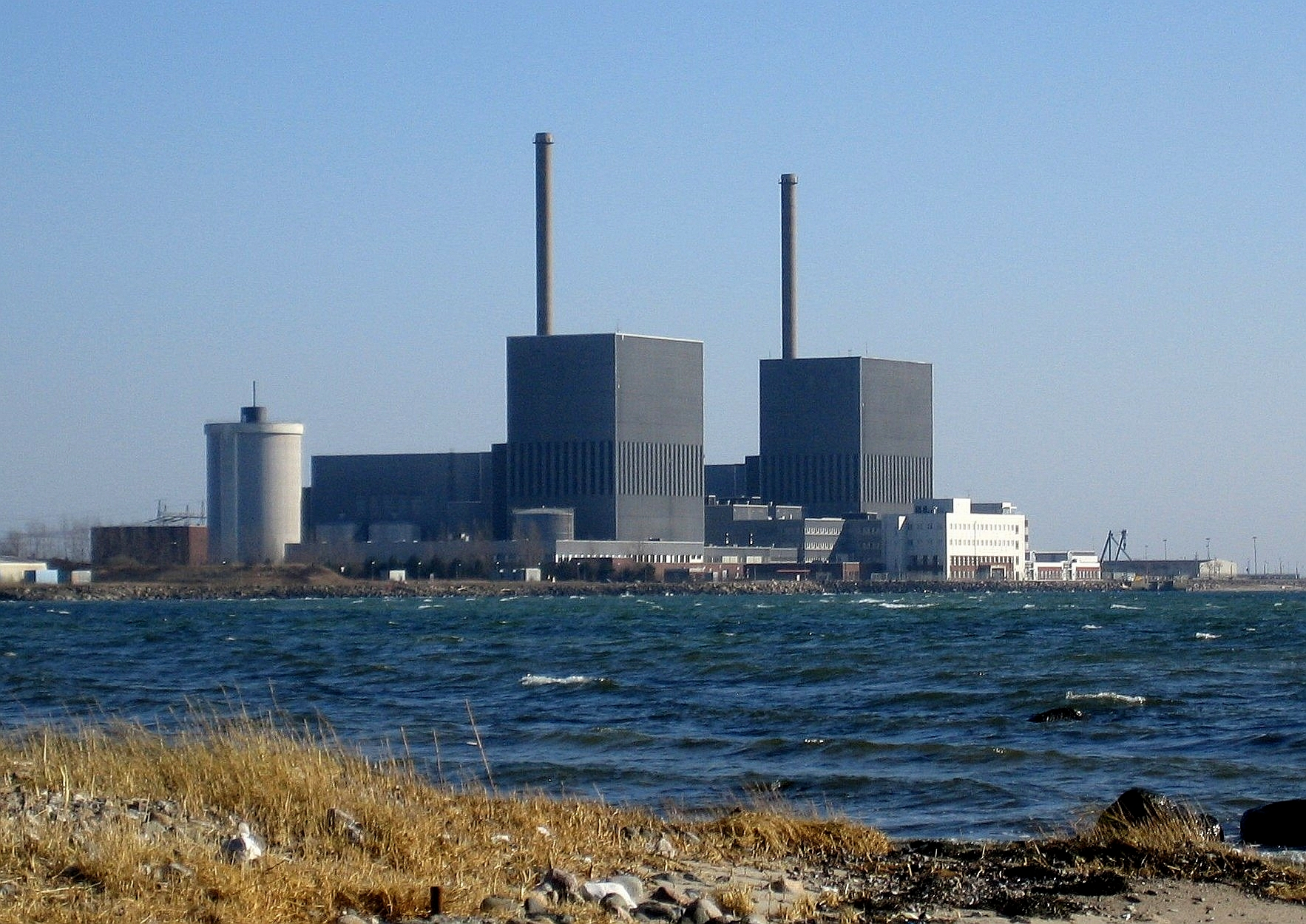 Barsebäck nuclear power plant in Skåne, Sweden